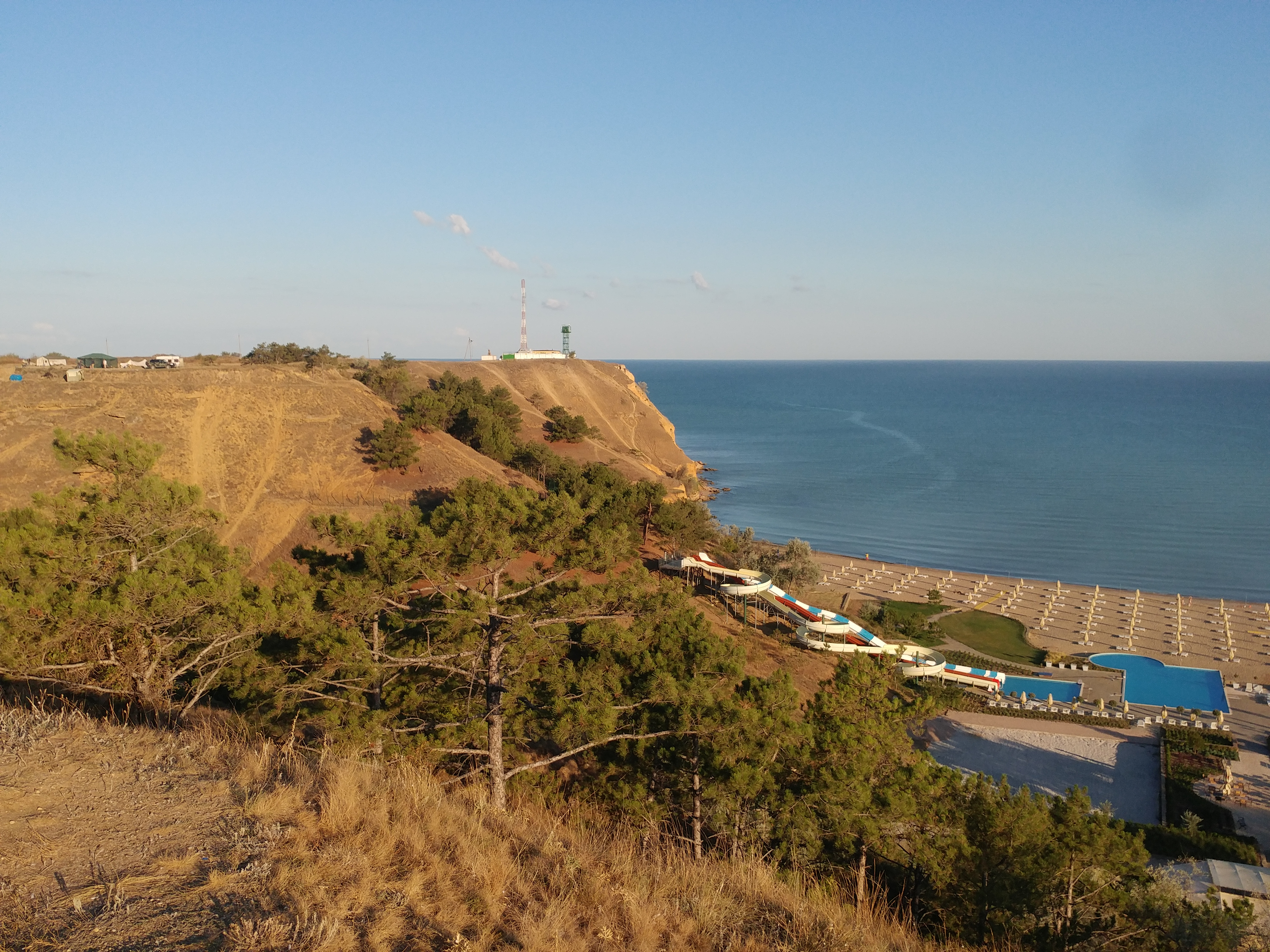 Left bank of the Alma river.